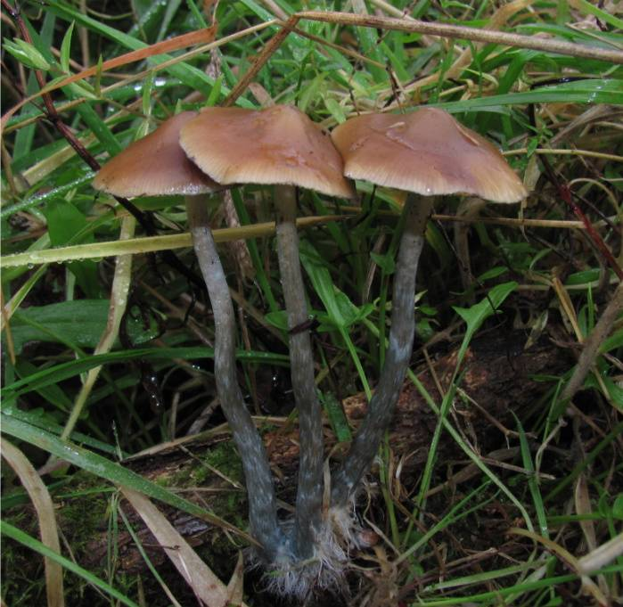 Psilocybe azurescens (Stamets & Gartz) Location: Pacific Co., Washington, USA Observation Notes: [admin – Tue Feb 08 12:34:26 0000 2011]: Changed location name from ‘Pacific Co, Washington, USA’ to ‘Pacific Co., Washington, USA’ For more information about this, see the observation page at Mushroom Observer.